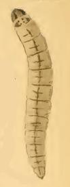 Stainton’s Natural History of the Tineina (1855–1873): Carpatolechia decorella